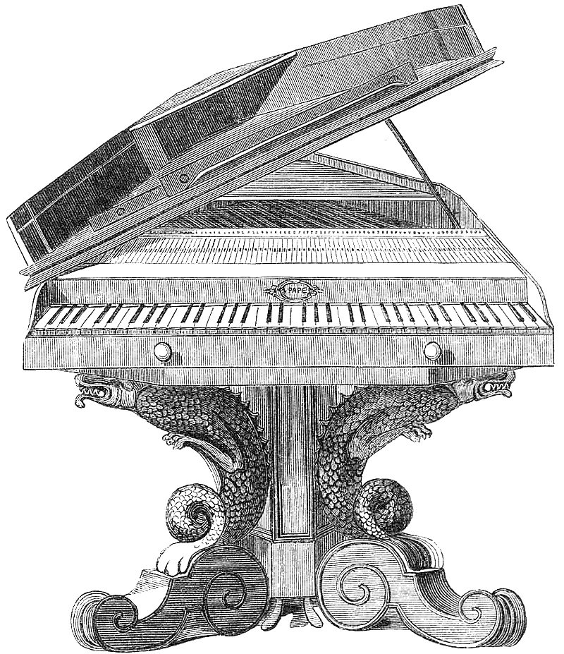 engraving captioned "The PIANOFORTE here introduced is manufactured by M. PAPE, of London, Paris and Brussels ; it is made to serve as a table when shut down"